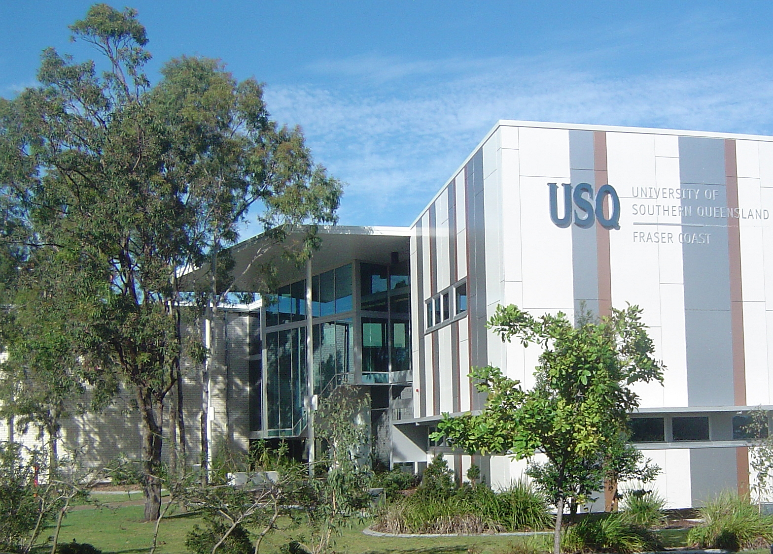 Photo of University of Southern Queensland campus at Hervey Bay.